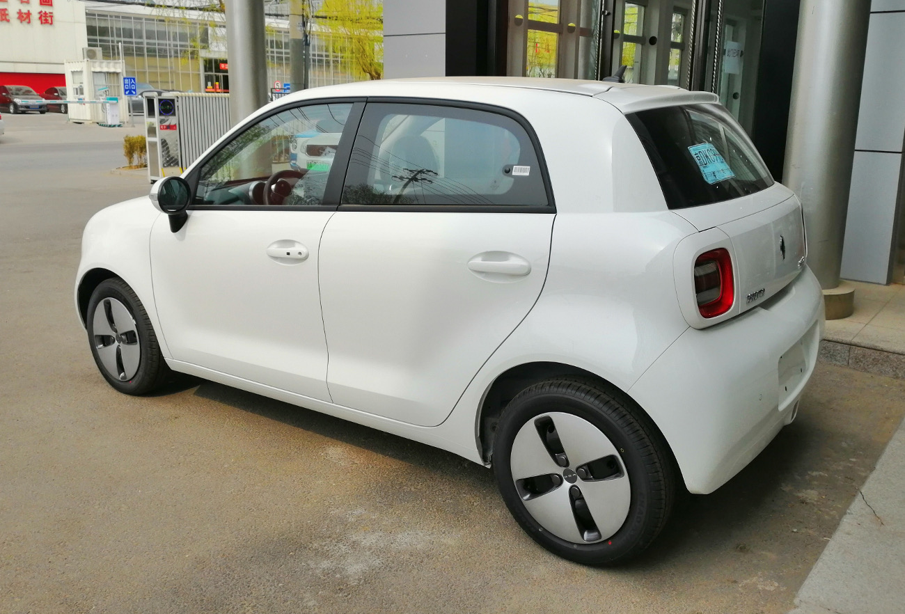 ORA R1 photographed in Beijing, China.